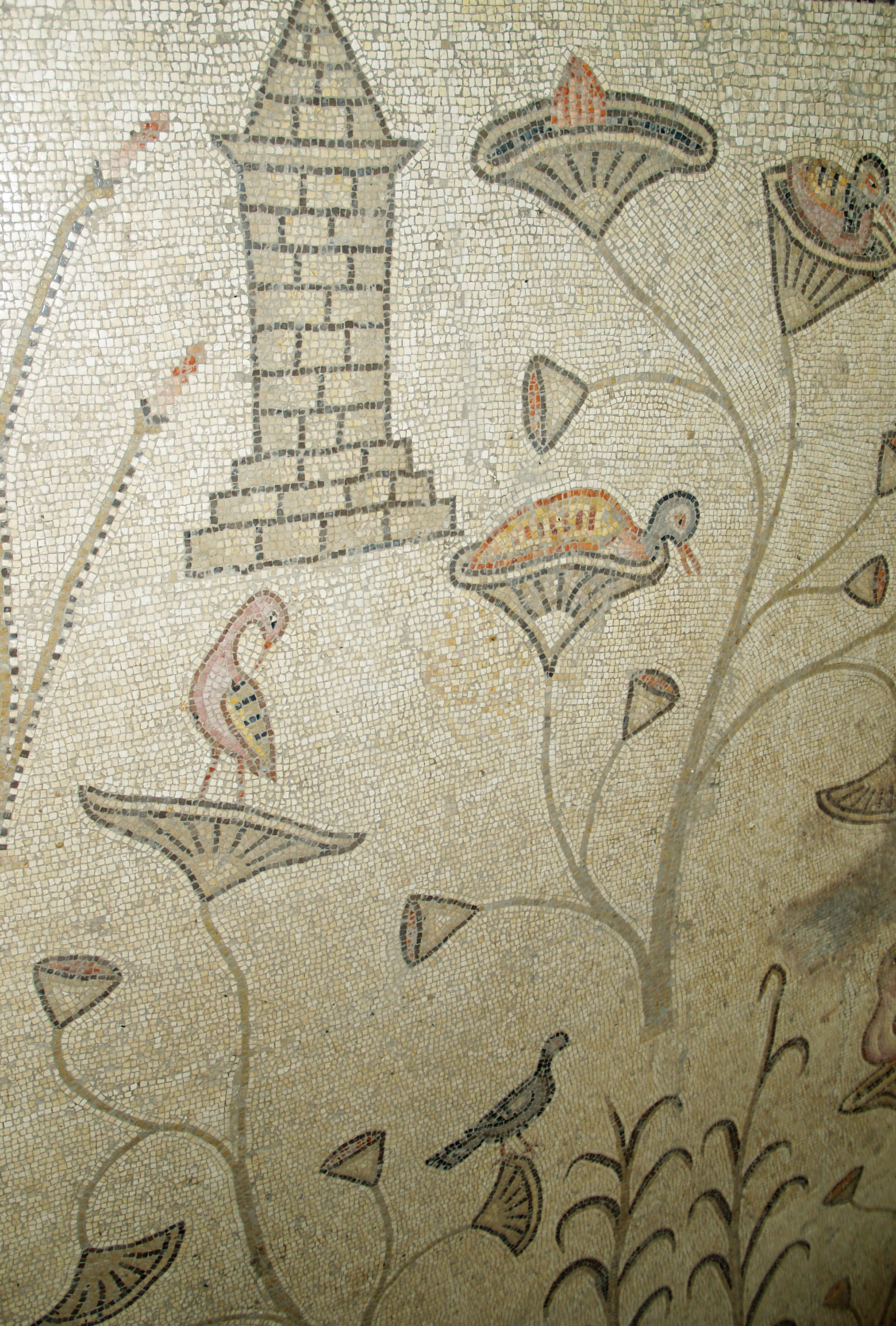 Mosaic in the Church of the Multiplication in Tabgha.